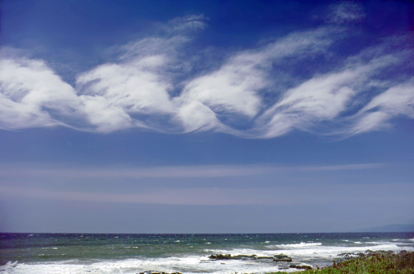 A shot of the rare Kelvin-Helmholtz waves in cirrus clouds. Taken over the Pacific near Santa Cruz in California.